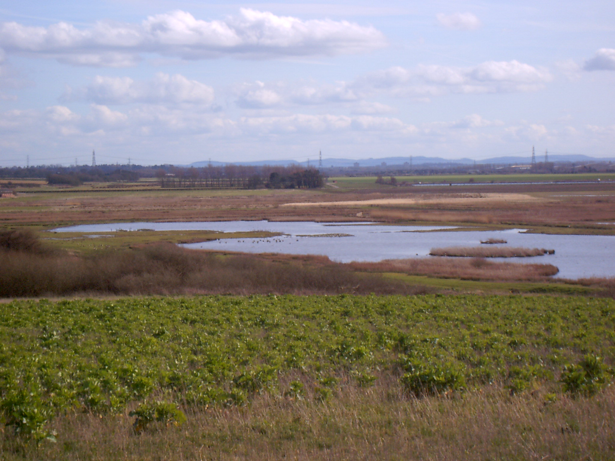 View across Inner Marsh Farm RSPB Reserve, Cheshire/Flintshire, UK.